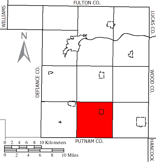 Made by the US Census and modified by myself